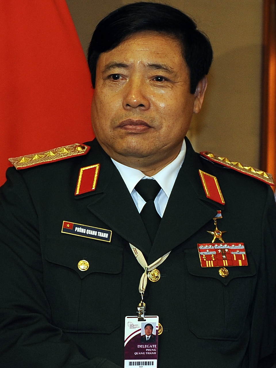 Vietnamese Minister of Defense Phung Quang Thanh at the ninth International Institute for Strategic Studies Security Summit, the Shangri-La Dialogue, June 4, 2010, in Singapore.